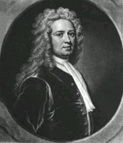 Frontispiece to The Family Memoirs of the Rev. William Stukeley, M.D. ...